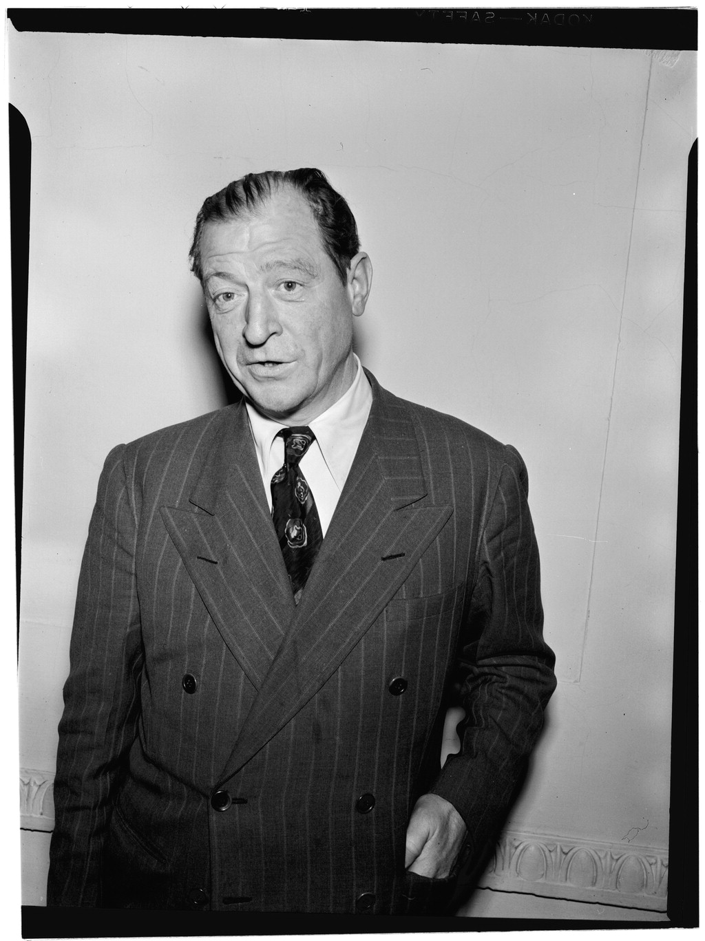 Red McKenzie, ca. Oct. 1946 (Photograph by William P. Gottlieb)